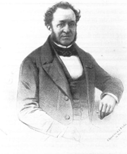 Leopold Johannes Antonius van der Kun